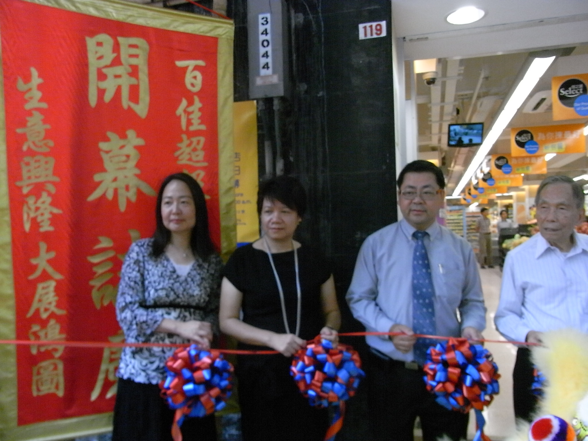 Grand Opening of Park'n Shop at Kiu Fat Building, 119 Queen's Road West, Sheung Wan, Hong Kong